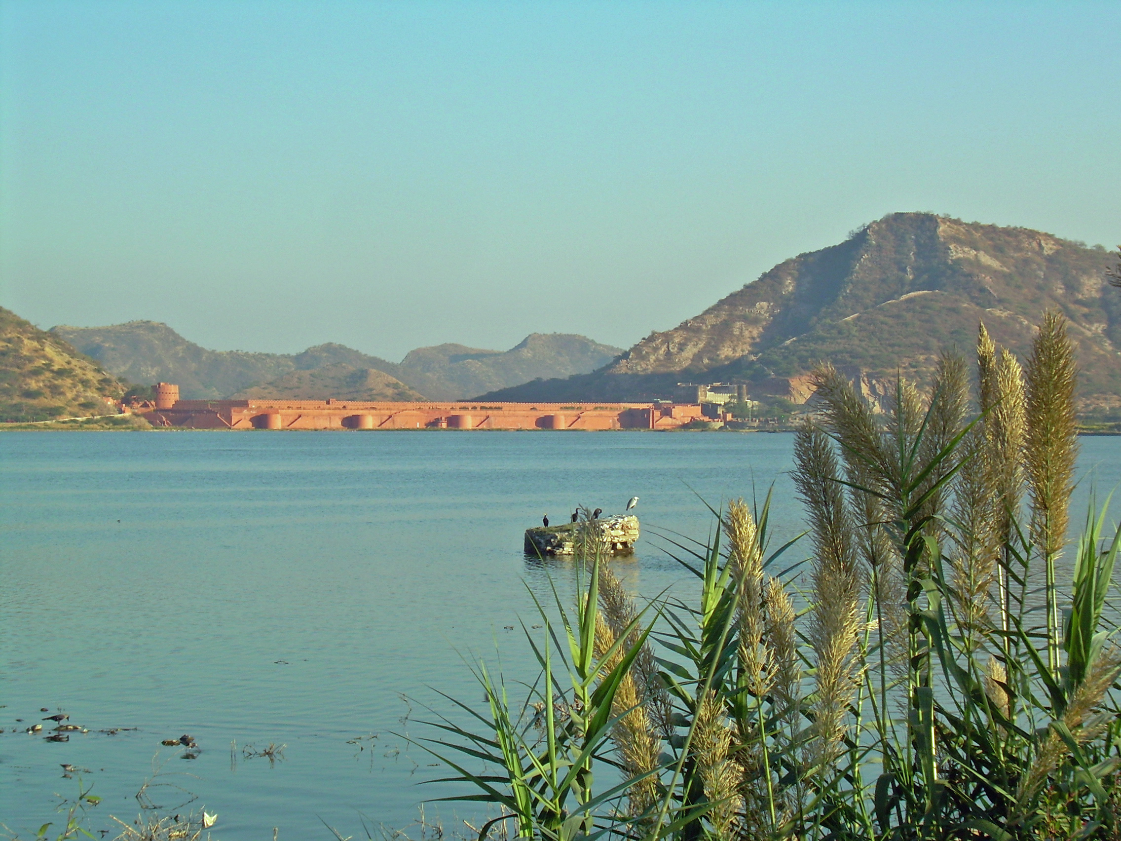 Man Sagar Lake : This old dam was built to create this lake to contain and cool the Maharaja's summer palace. It was neat seeing it in 2 seasons. In July when I was there, the lake was empty and the lakebed dry so it was cool to see it now full of water after the monsoon rains.